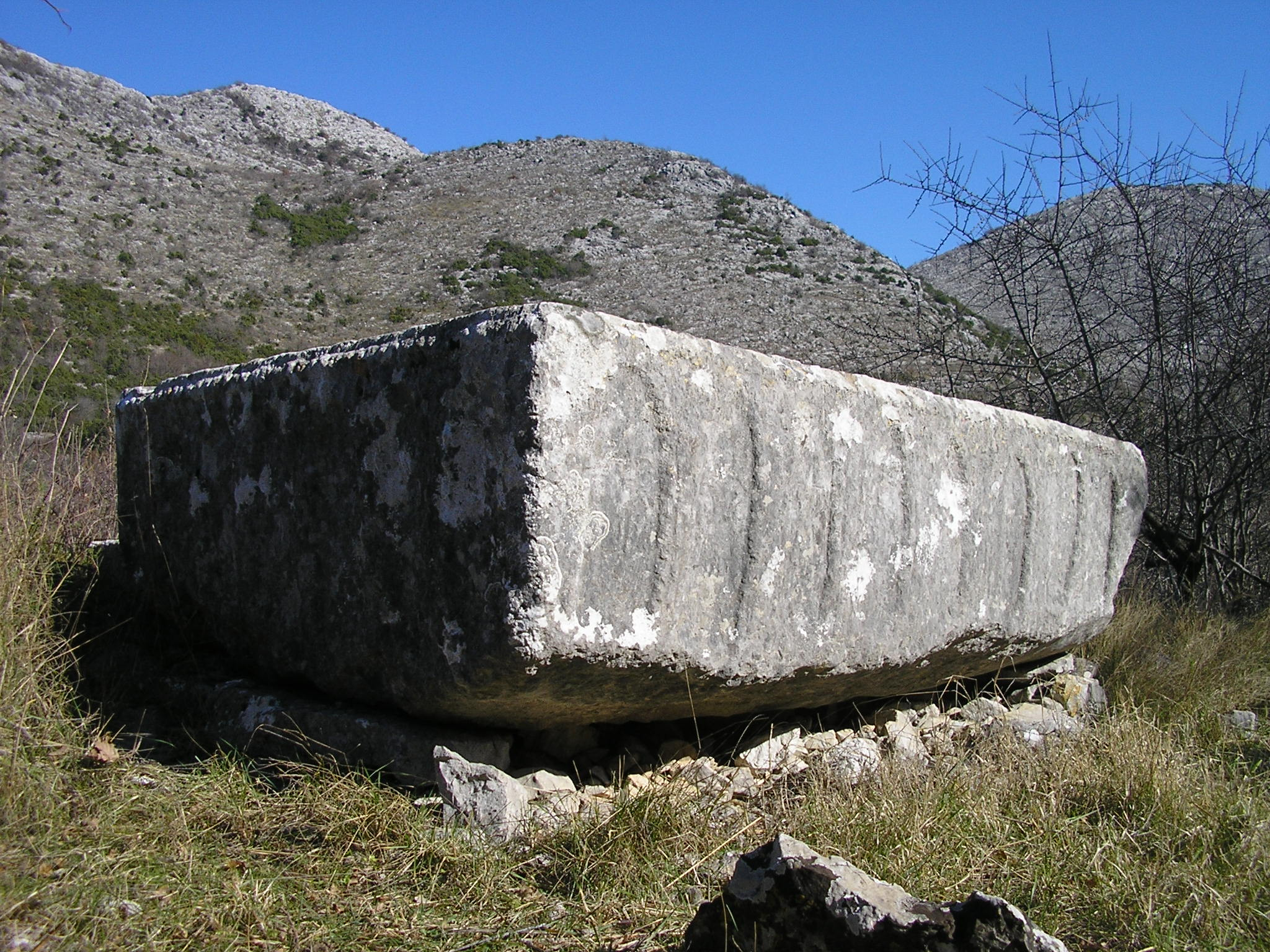 Stećak in Hutovo (Karasivica (Drijenjak))